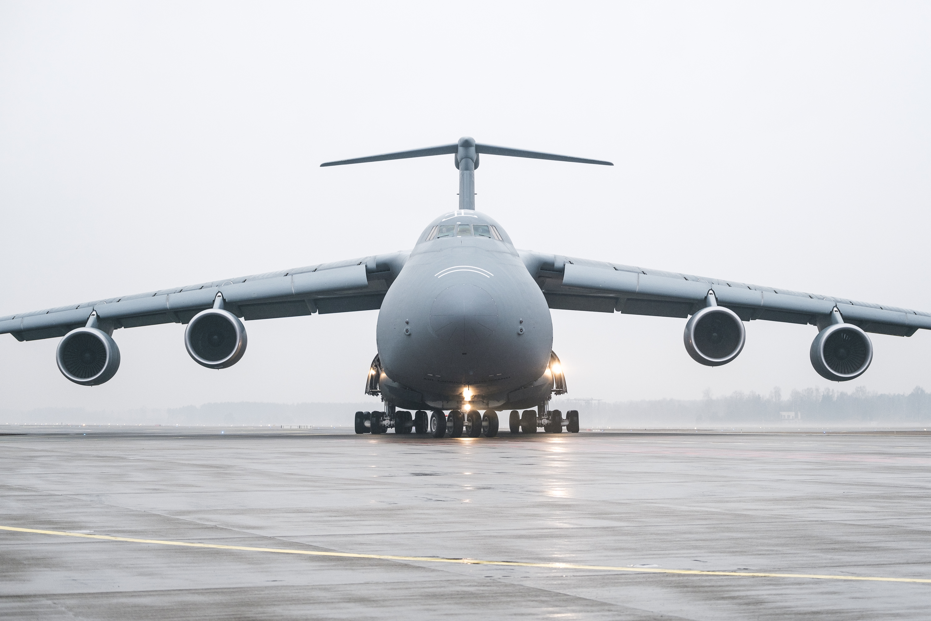 Lockheed C-5M Super Galaxy delivering Sikorsky Blackhawks to Riga airport